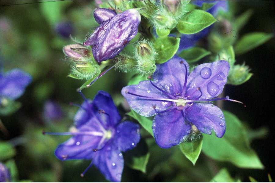 Hydrolea ovata